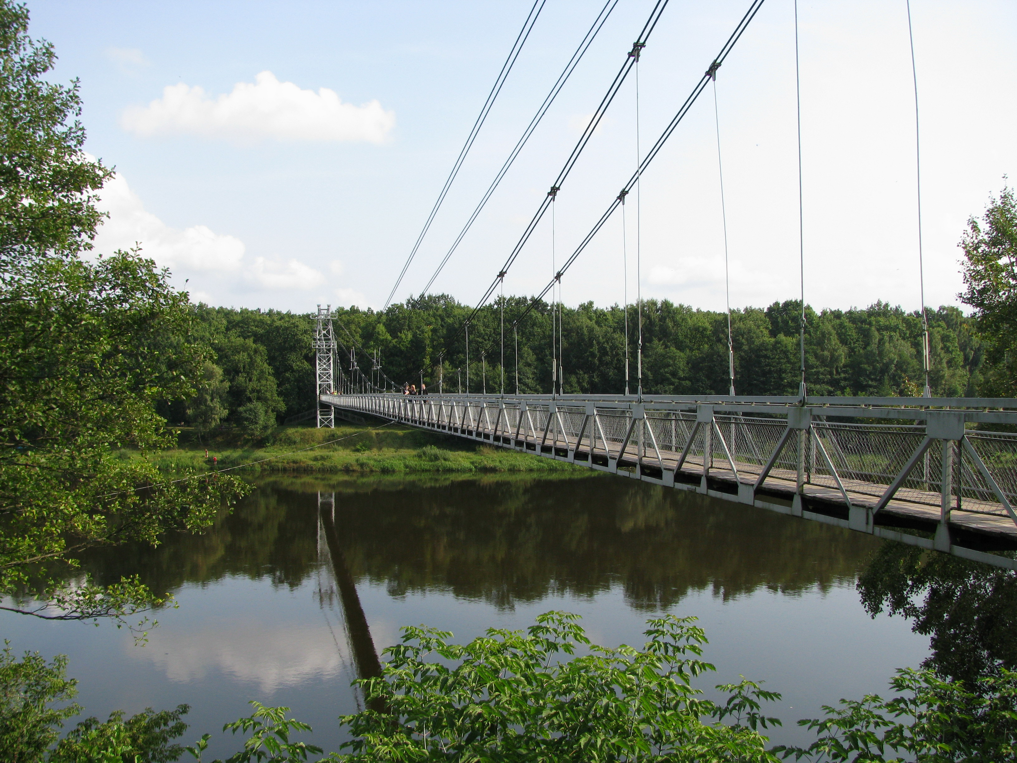 Bridge in Masty